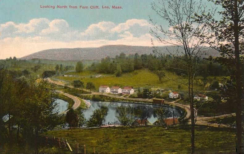 Looking north from Ferncliff, Lee, Massachusetts, showing the Housatonic Railroad's track.